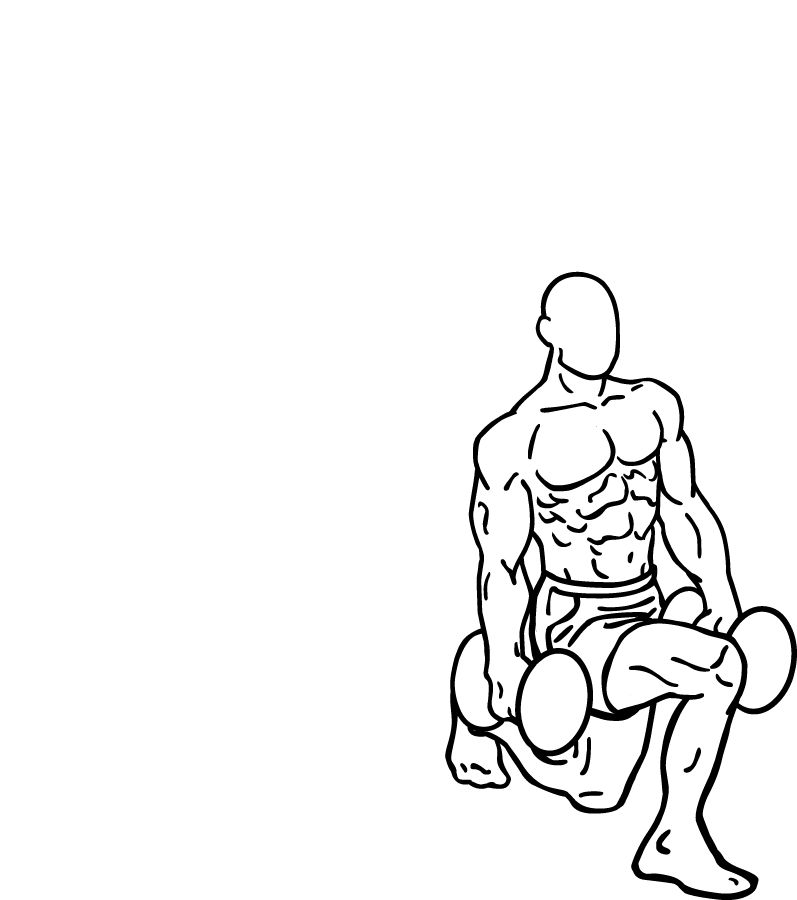 an exercise of hip